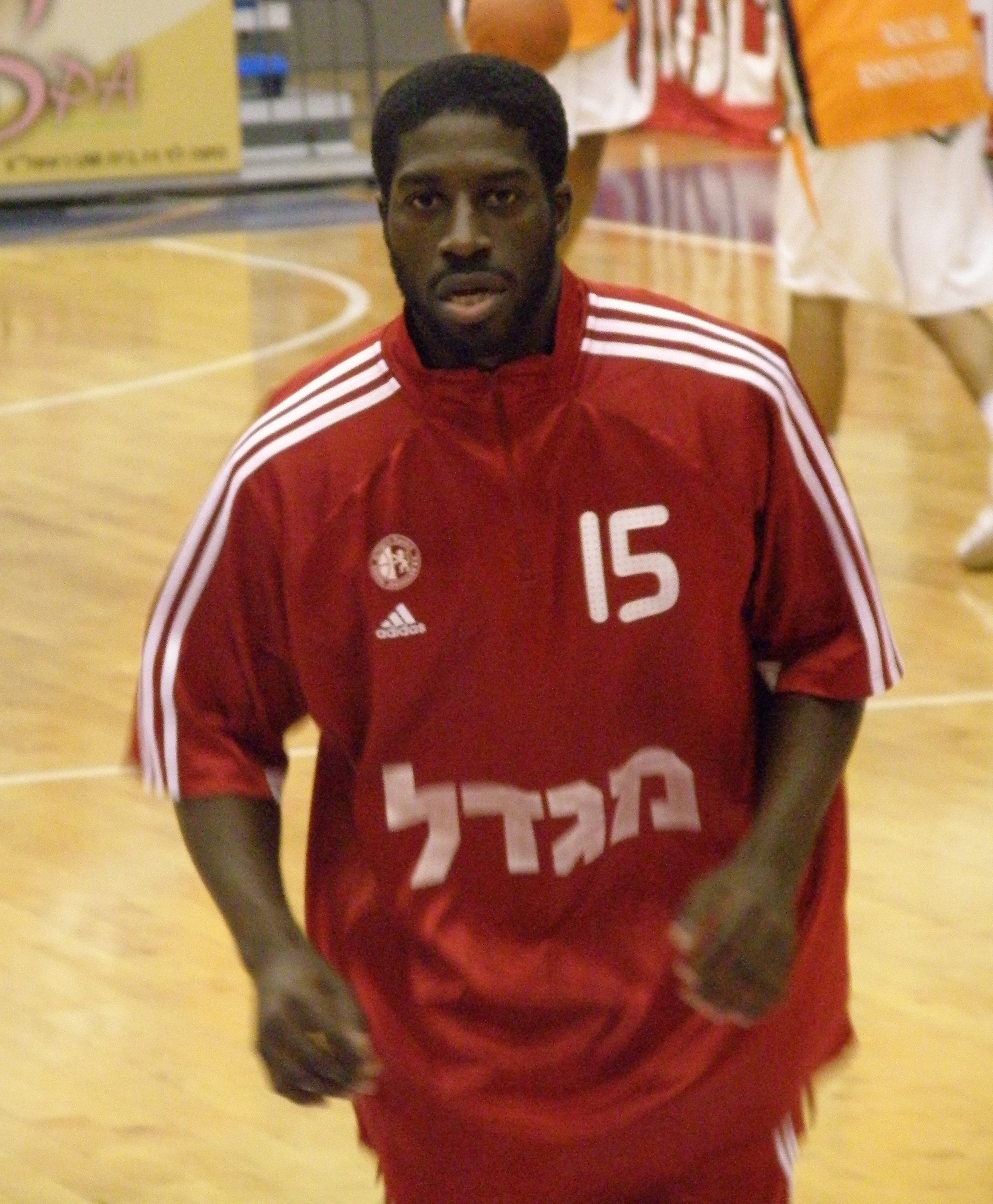 Pooh Jeter, American basketball player playing for the "Hapoel Jerusalem" club in Israel